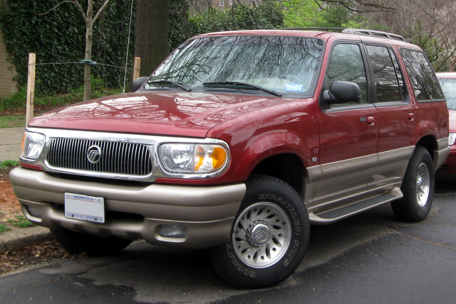 1998-2001 Mercury Mountaineer photographed in Washington, D.C., USA.